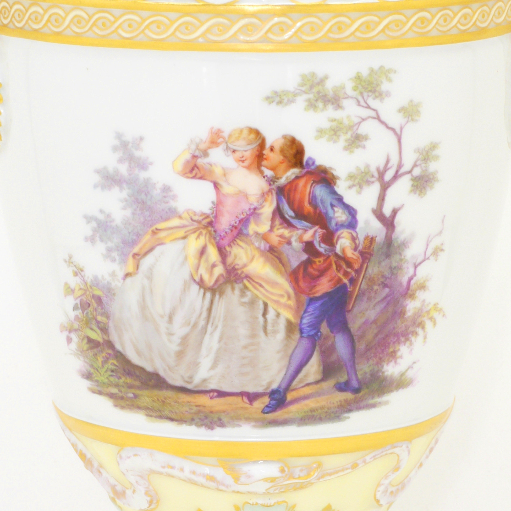 painting of a Watteau scene on a vase KPM Berlin, 1914-1918